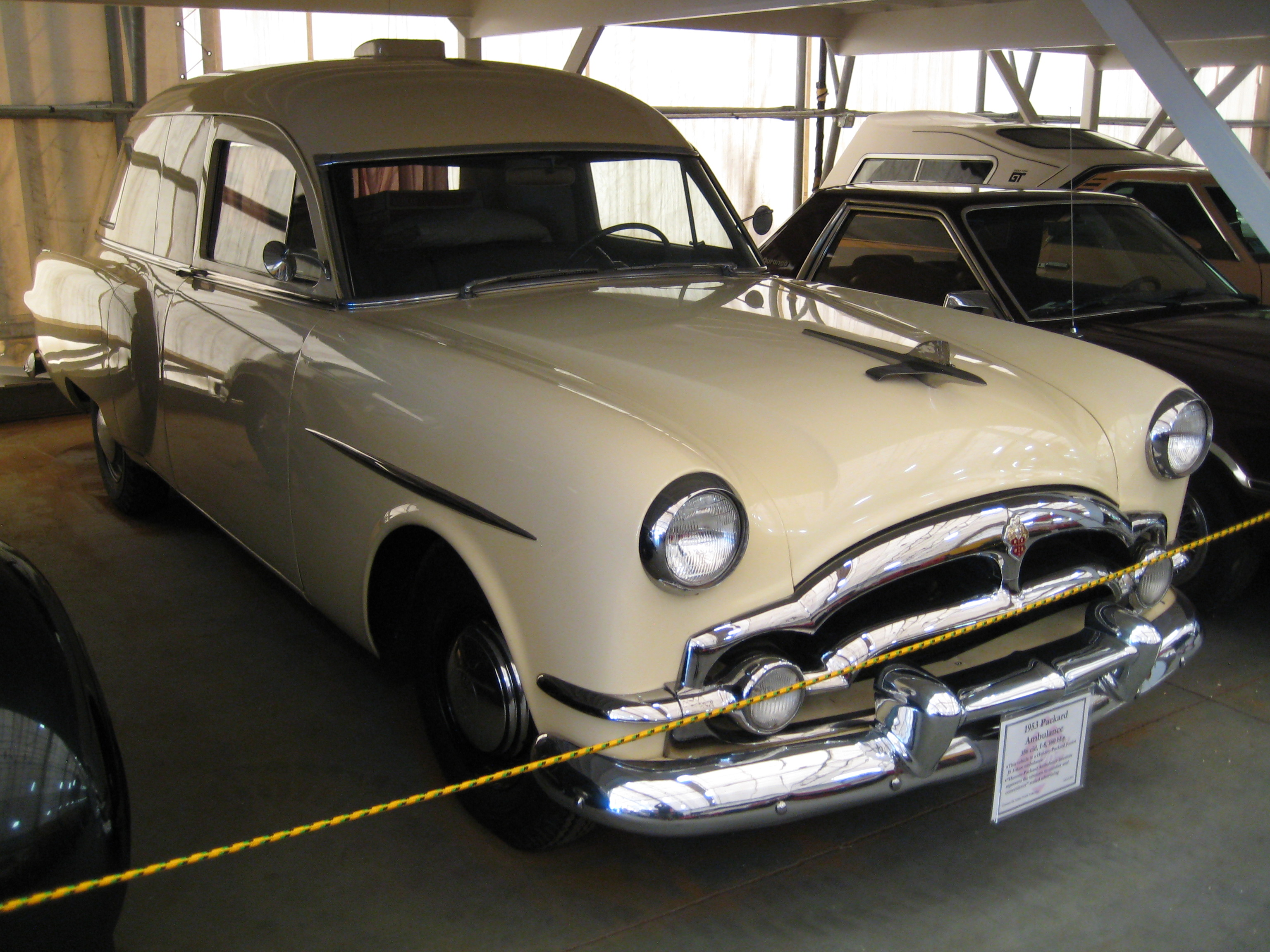 Smaller ambulance made by Henney, often seen as military ambulance. On display in one of the big warehouses with much of the collection at the LeMay Open House.